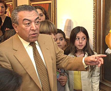 Maurício de Sousa